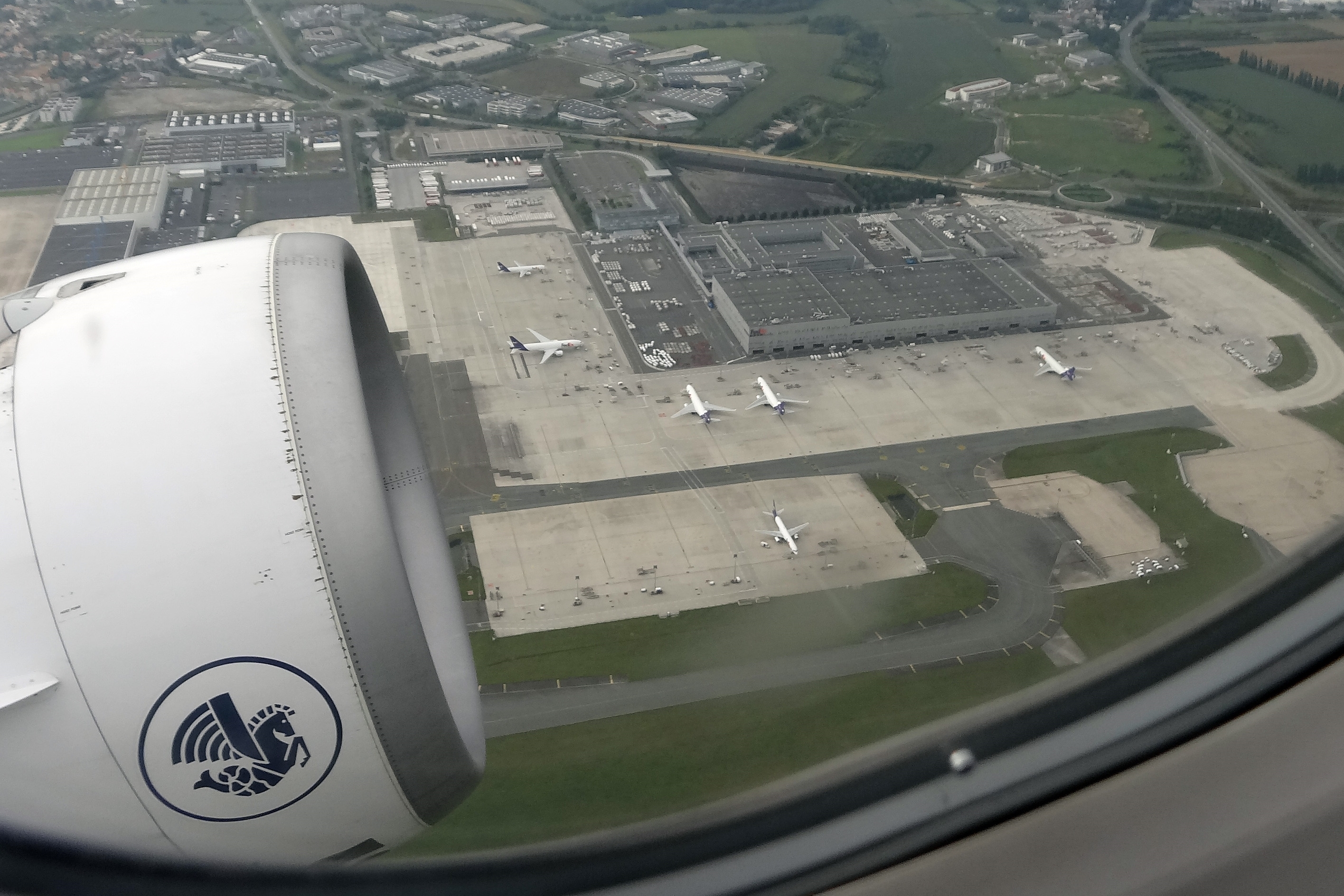 CDG AIRPORT FEDEX HUB FROM FLIGHT CDG-FRA AIR FRANCE A318 F-GUGM